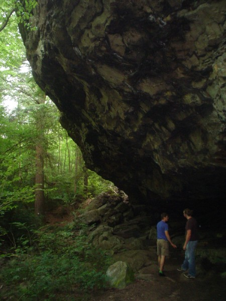 Hikers walk beneath an overhang on the Fiery Gizzard Trail.